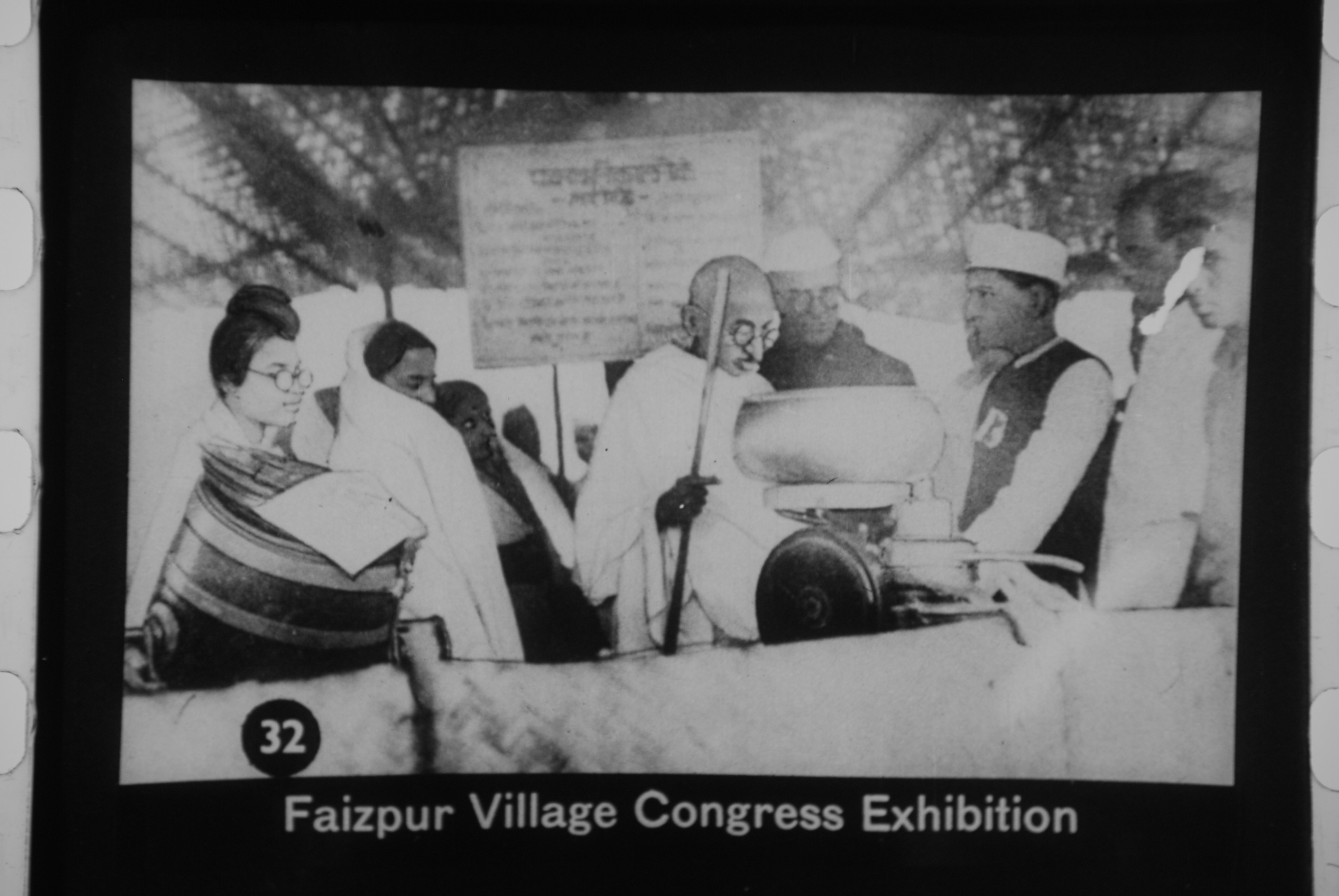 Gandhi at Faizpur Village Congress Exhibition